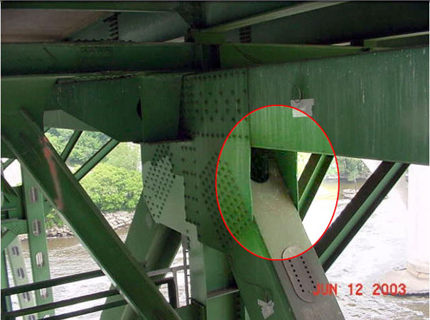 "earlier [in 2008] the NTSB released old photos of the 35W's bowed gusset plates": NTSB closer to answering why the bridge went down by Sea Stachura, Minnesota Public Radio, August 1, 2008.